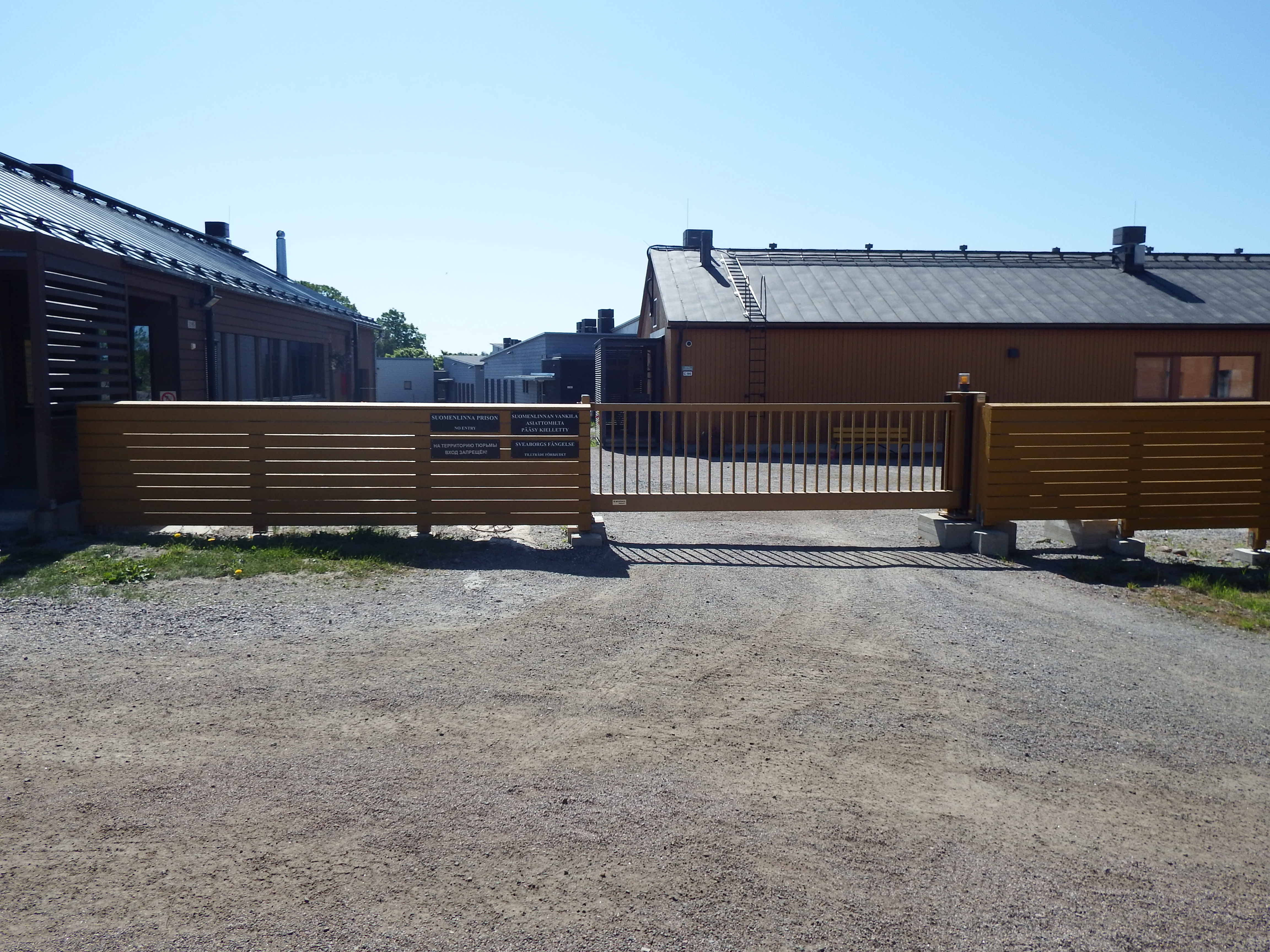 The Suomenlinna prison, Helsinki, Finland